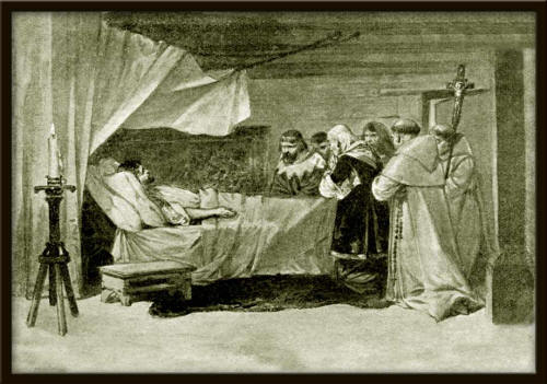 Rudolph I of Bohemia